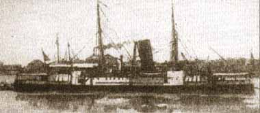 The ship Chaoyong.